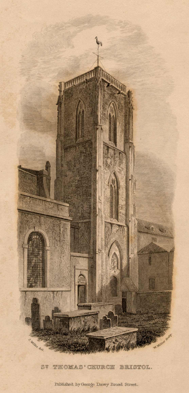 Black and white photograph of St Thomas the Martyr church, Bristol, UK, published c.1838. The view shows the 18th century body of the church on the left of the image and the medieval tower in the centre. In front of the church can be seen the graveyard with standing gravestones. In the background can be seen the buildings of the St Thomas Livestock Market, now mostly demolished except The Fleece which was regenerated into a cult music venue.